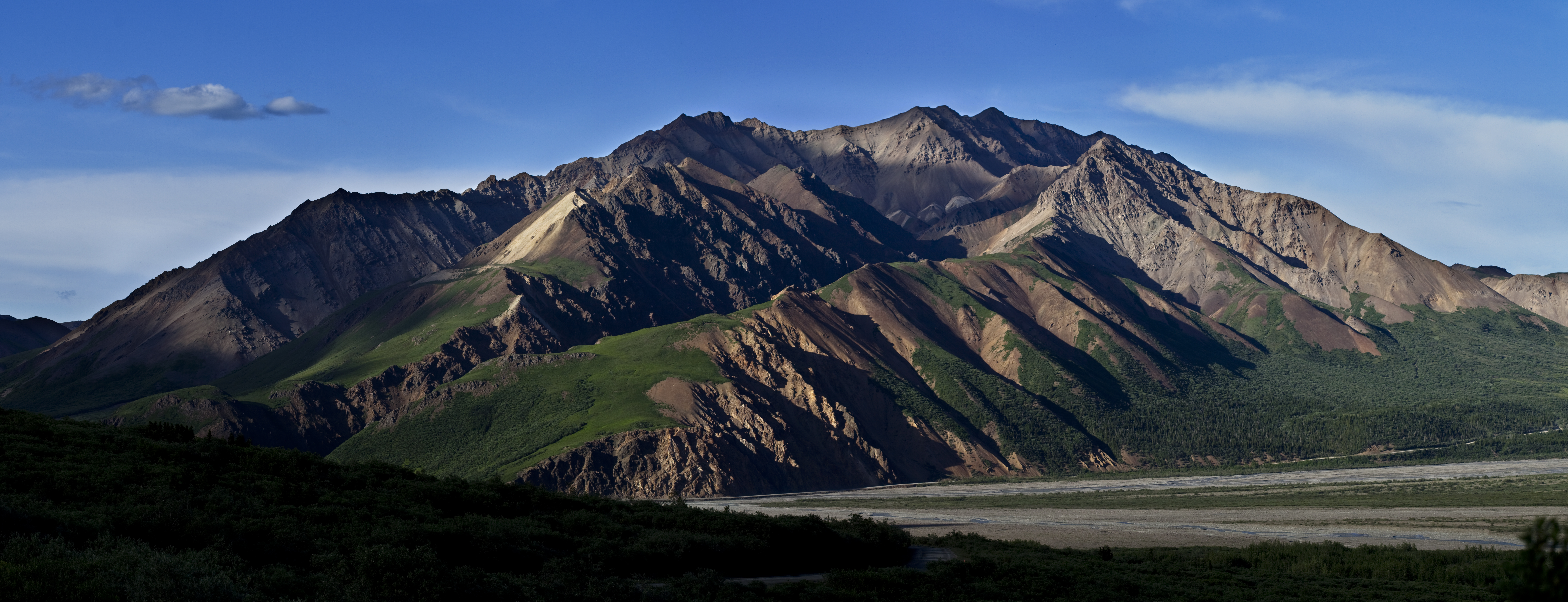 a large mountain covered in green vegetation and brown rock The Denali Park Road travels through the Outer Range and some of the smaller mountains of the Alaska Range on its 92-mile course. Keywords: mountains